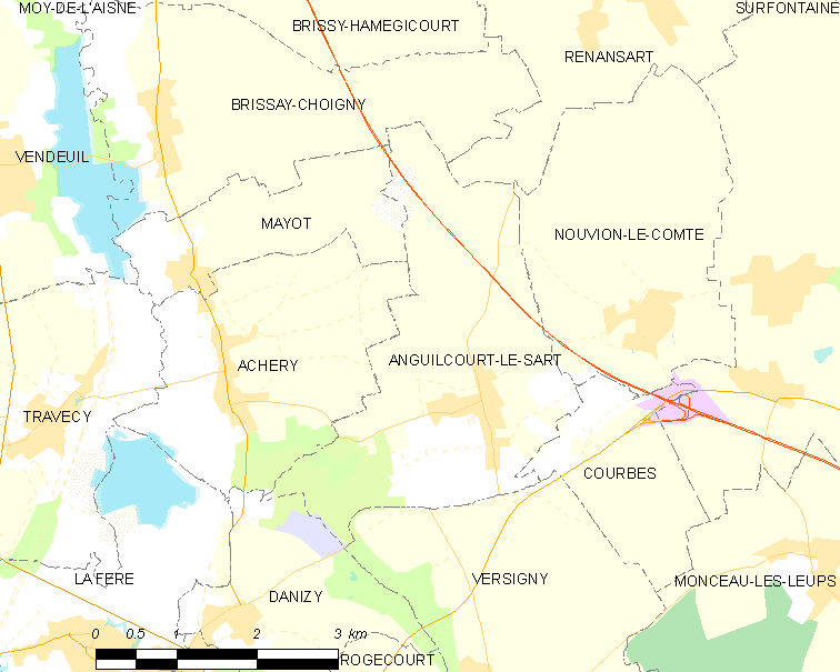 Map of French commune: Anguilcourt-le-Sart Map commune FR insee code 02017.png